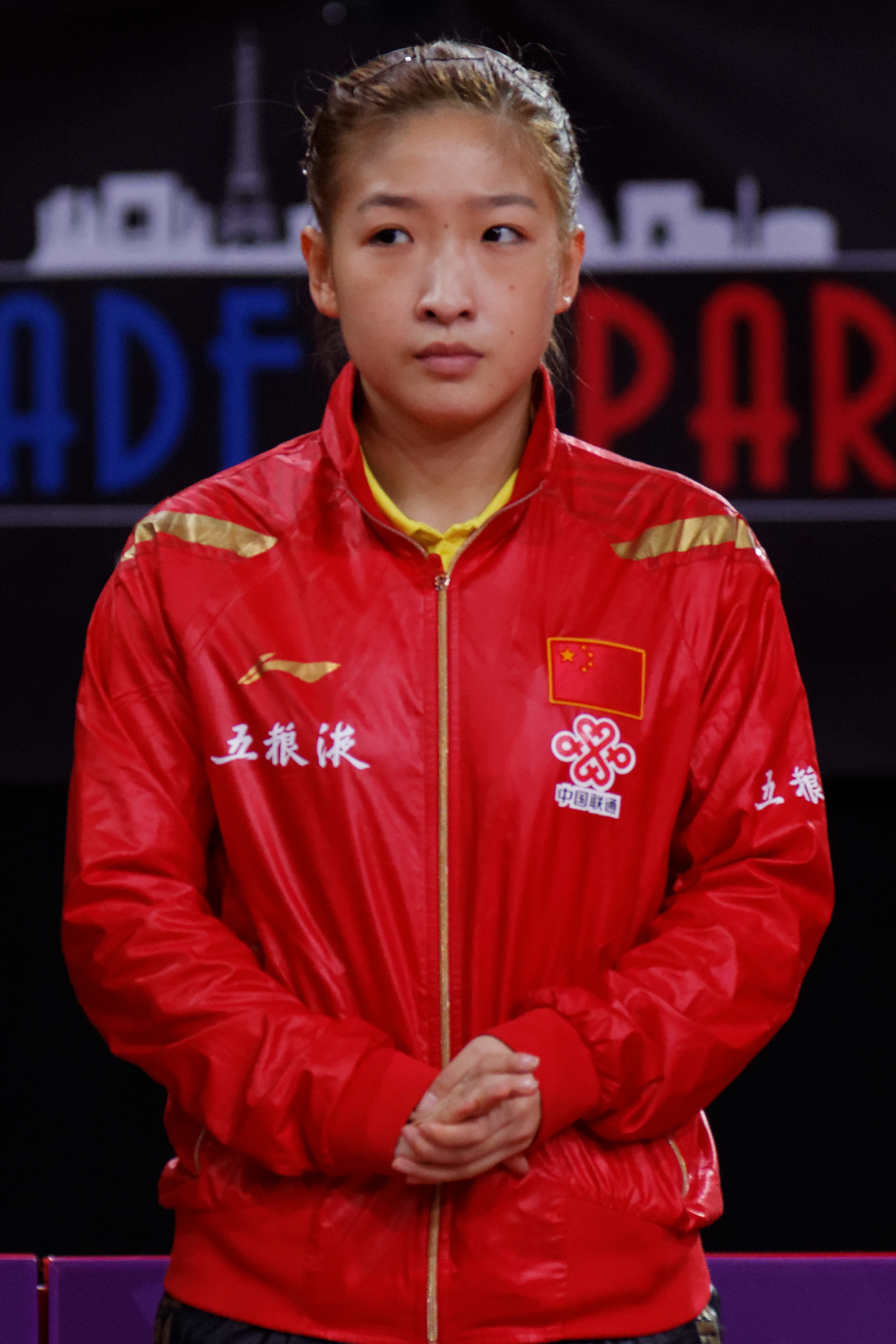 2013 World Table Tennis Championships, Paris. Women's Doubles Finals.